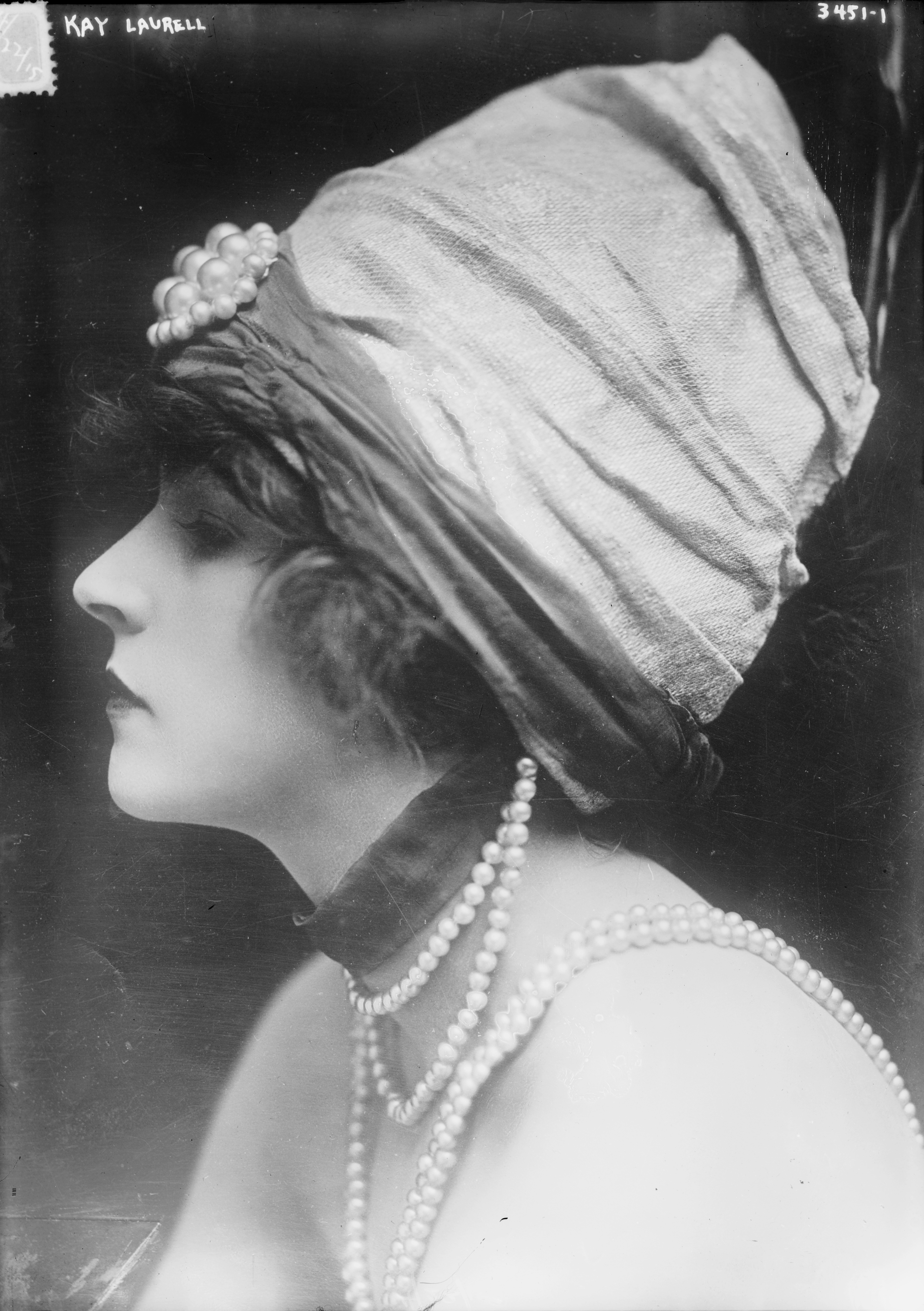 Kay Laurell. Profile head and shoulders portrait, wearing hat and stings of pearls.